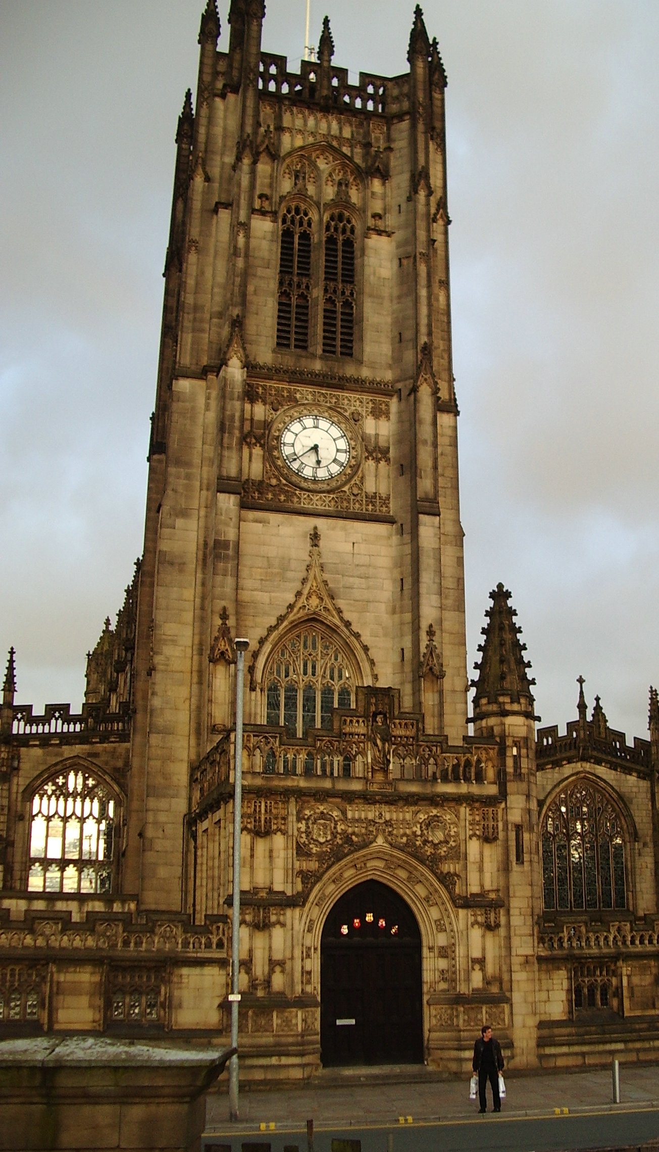 Manchester Cathedral, photograph taken by Lmno on 9 Oct 2004 Category:Images of Manchester